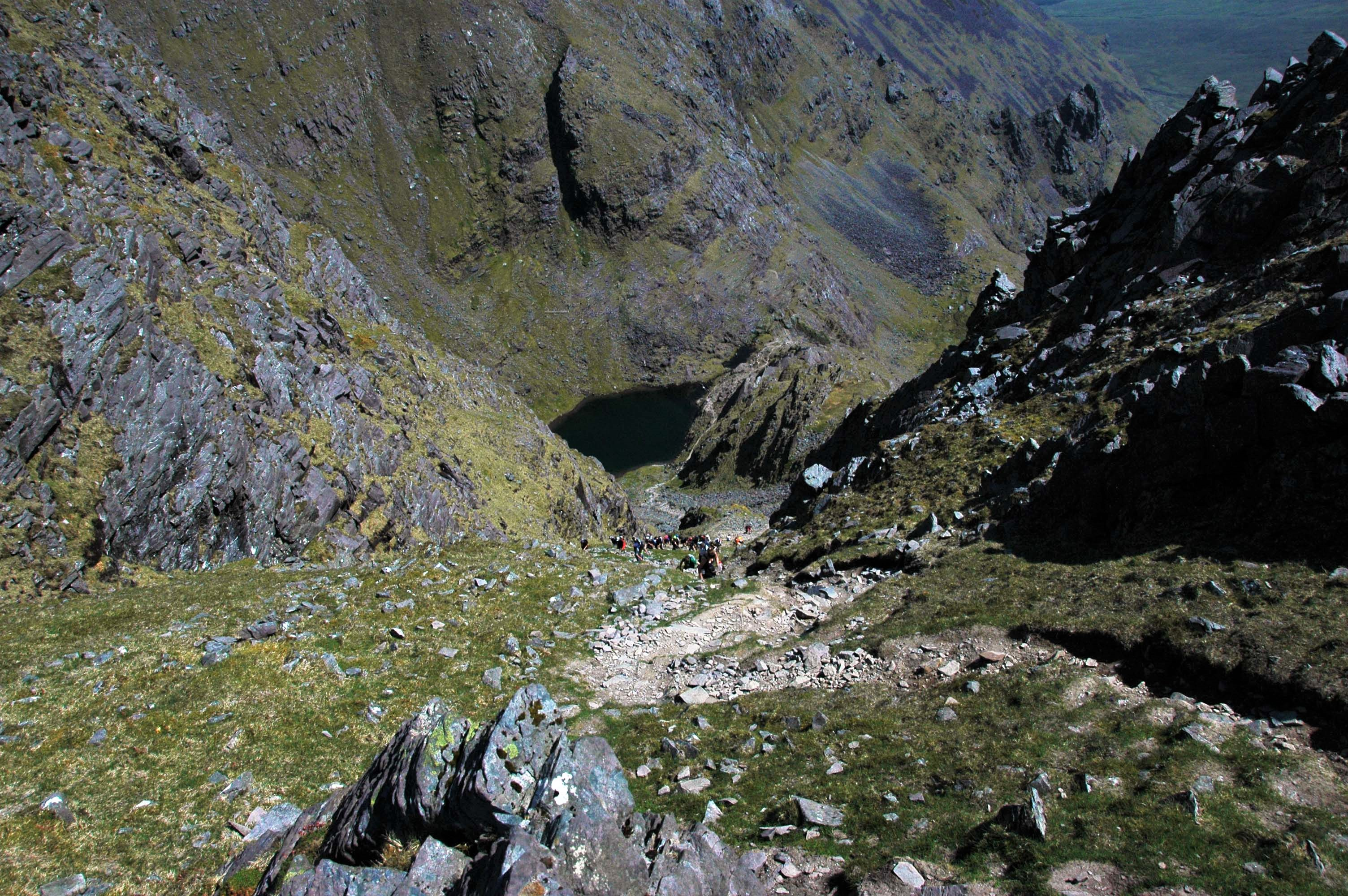 Looking down the Brother O'Shea's Gully into the Eagle's Nest corrie of Carrauntoohil's north-east face. Lough Cummeenoughter is below.